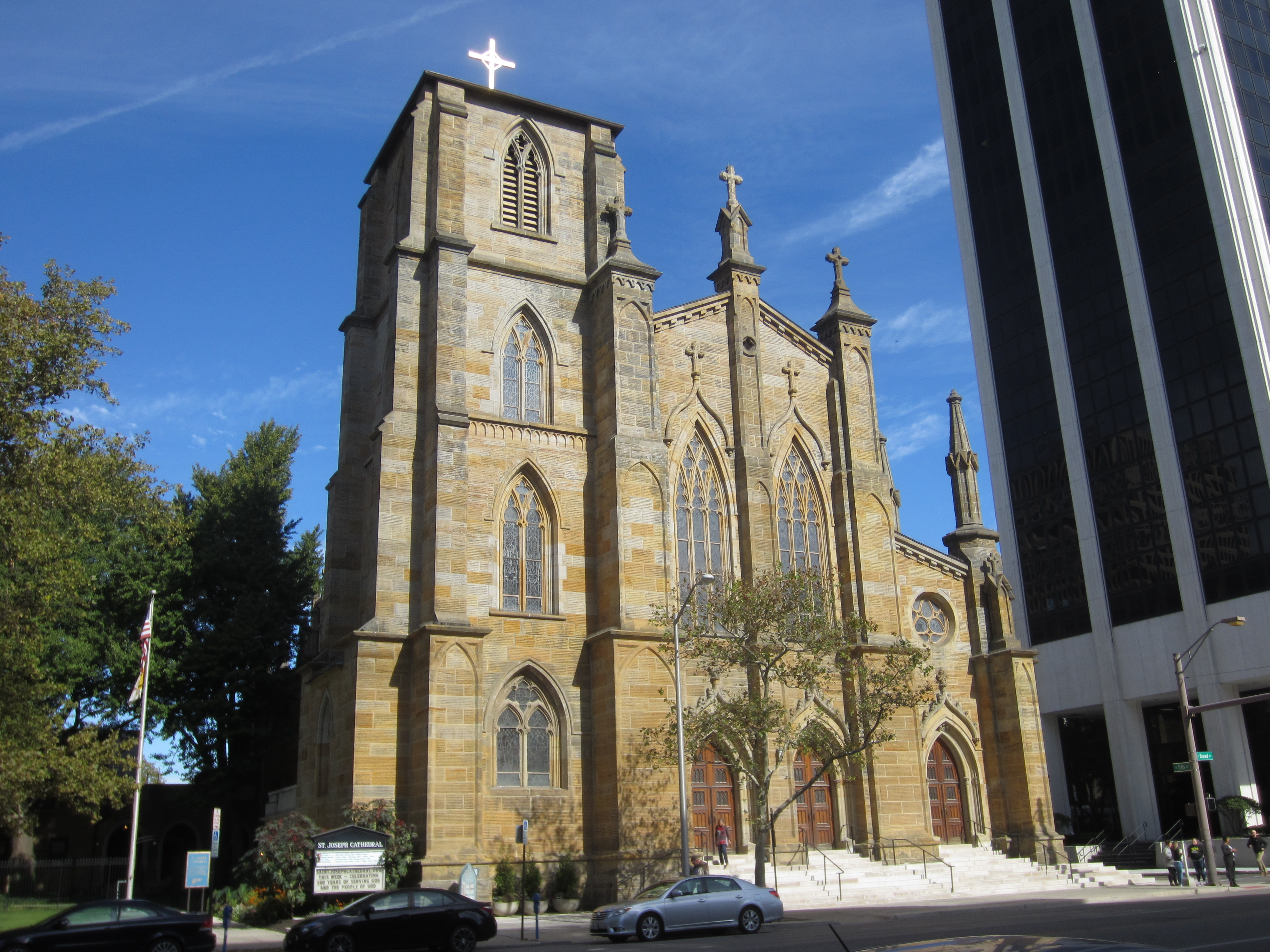 Columbus, Ohio (2018)